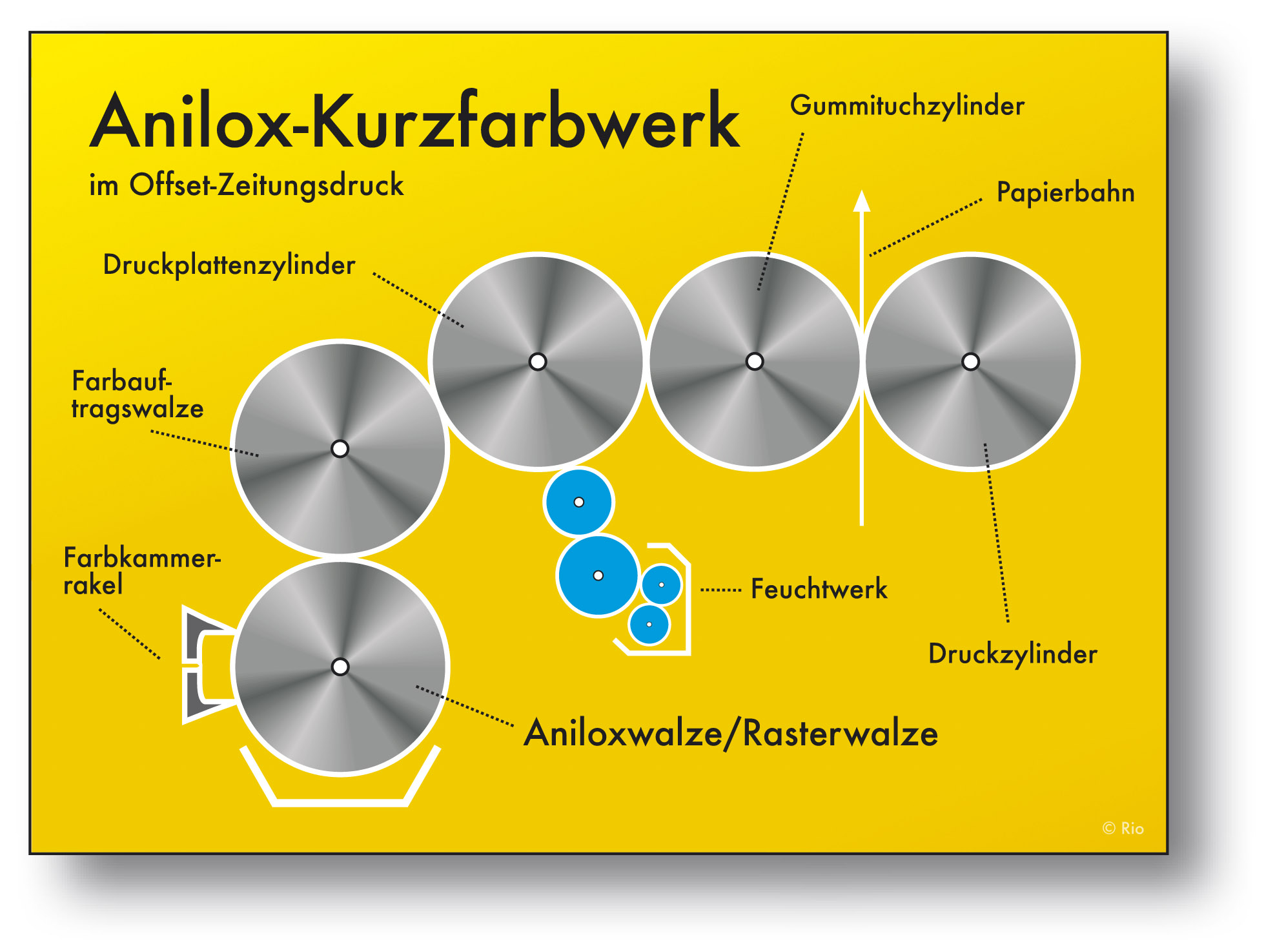 Anilox-Short-Inking-System